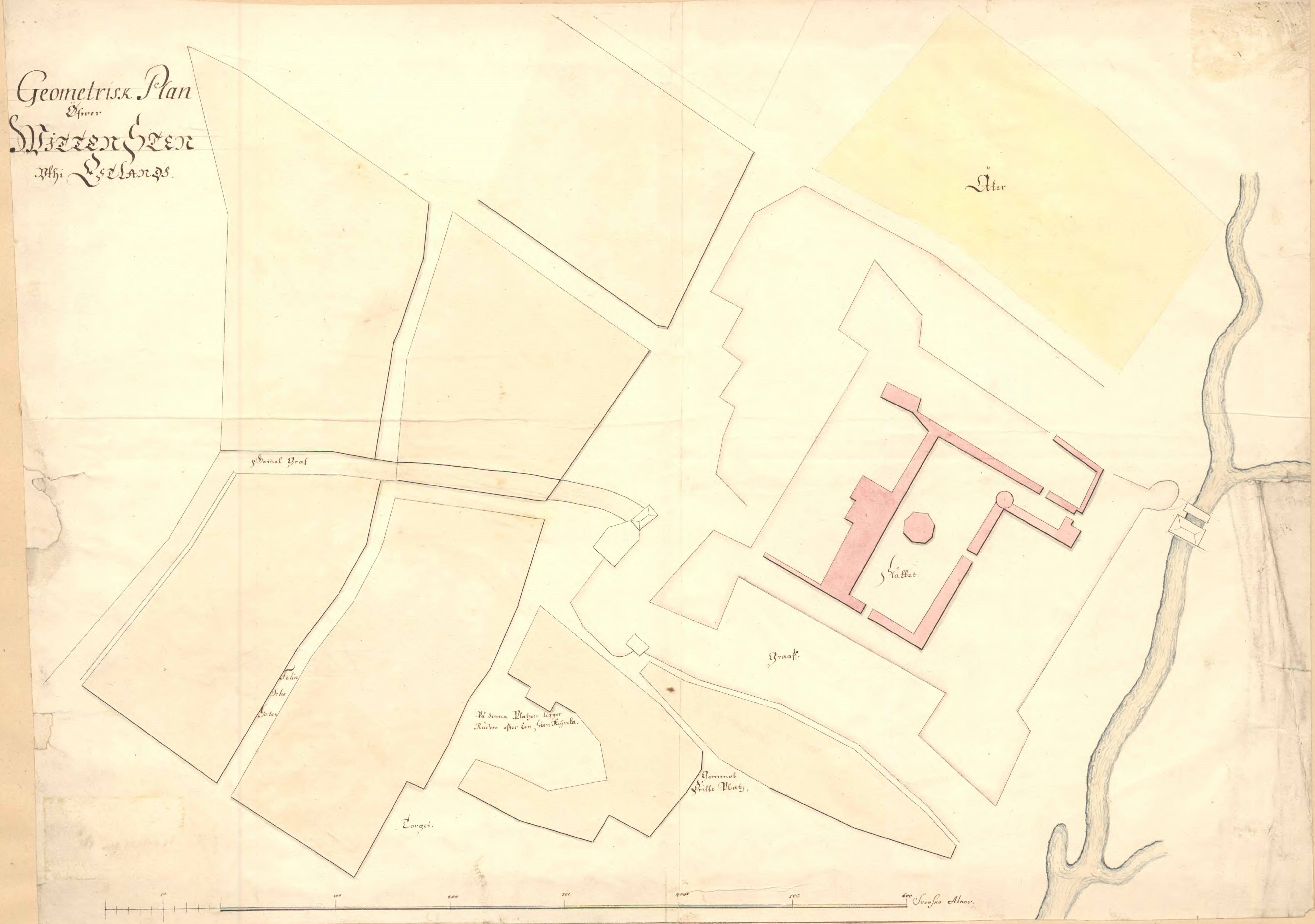 Map of Paide castle and town.